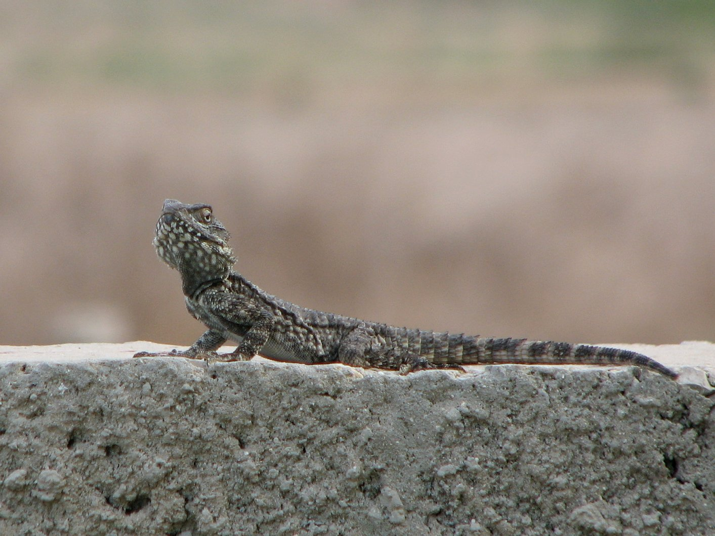 Roughtail Rock Agama. The photo was taken in norhtern Israel, Akko.